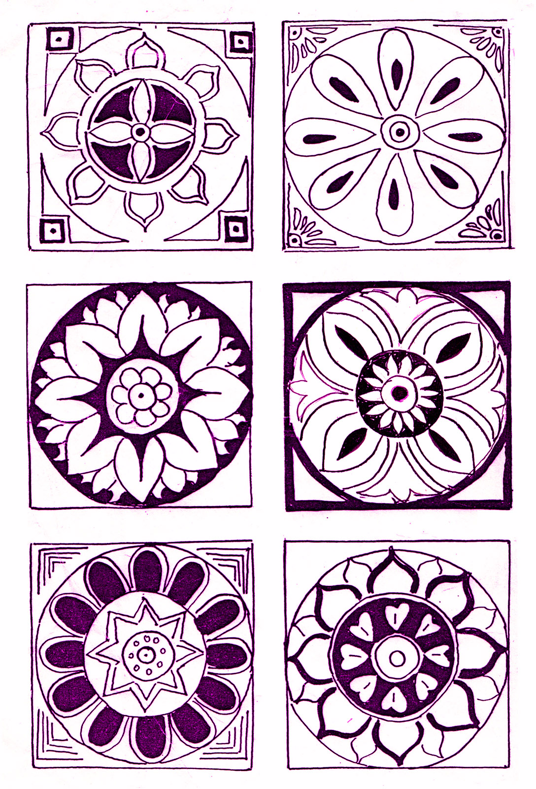 Mandala drawings (by Saraswati Albano-Muller, Germany) express the Hindu belief that all things and the "wheel of life" have a godly center point